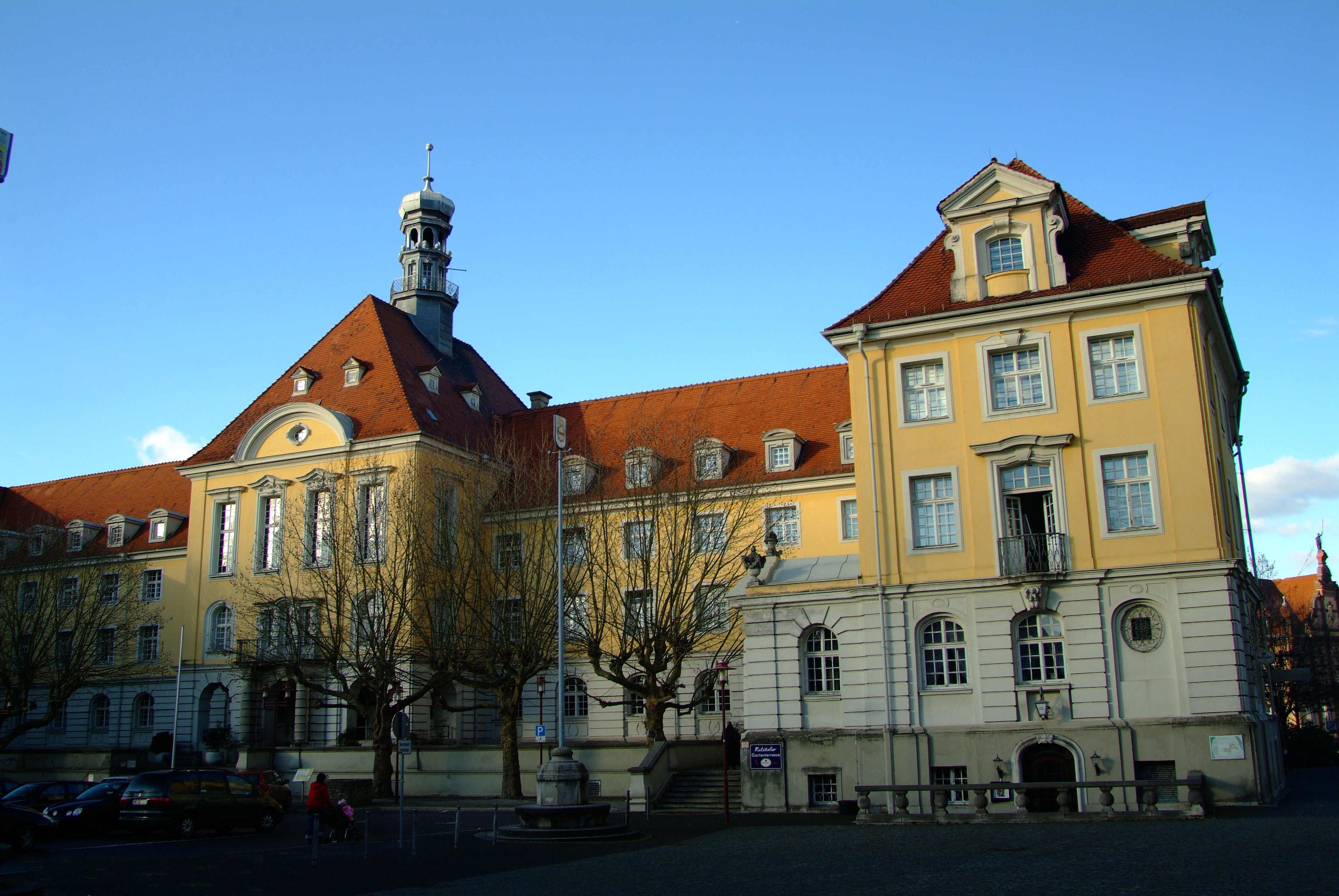 The townhall of Herford, North Rhine-Westphalia, Germany